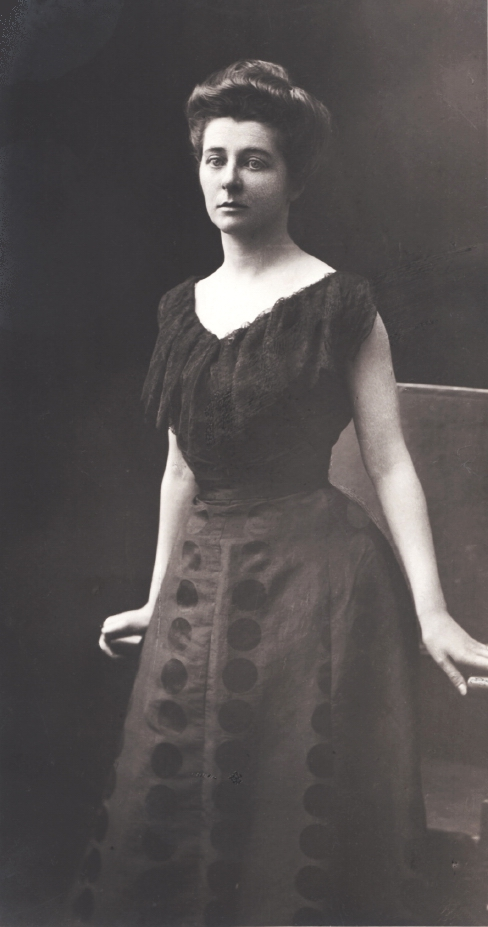 Caroline Fitzgerald (1865-1911), American poet resident in Italy. Archive of the heirs of Caroline Fitzgerald and Filippo De Filippi. Plate 18. Pallastrelli, Gottardo (2018). Ritratto di signora in viaggio : un'americana cosmopolita nel mondo di Henry James [Portrait of a Travelling Lady] (eBook) (in Italian). Roma: Donzelli editore. ISBN 978-88-6843-7770. Photograph by Mlle Angiolini, Florence.